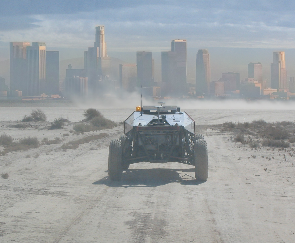 Image of Autonomous Robot From Second Grand Challenge Advancing to Urban Challenge.